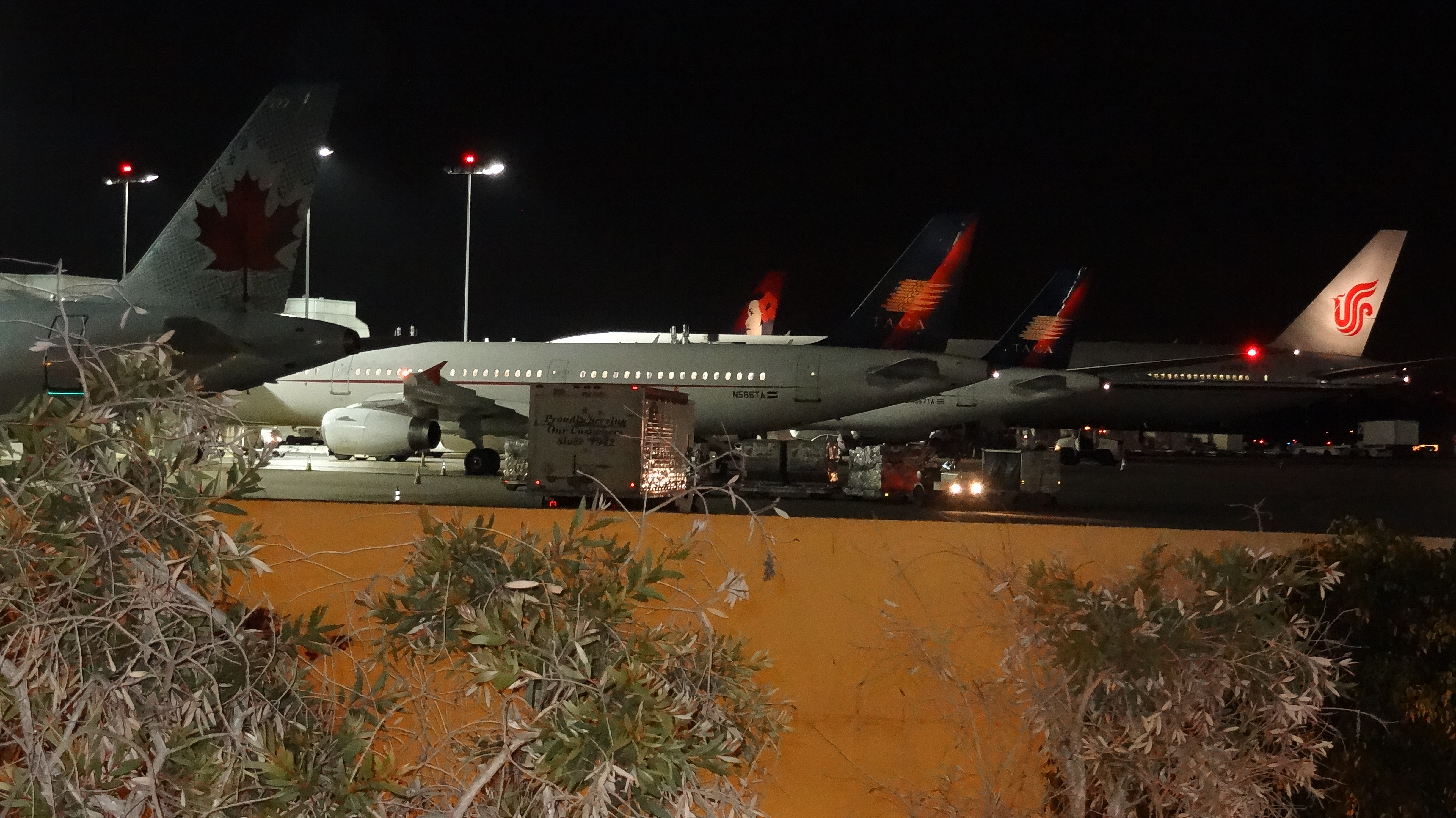 Terminal 2 with Air China and Avianca Airlines.